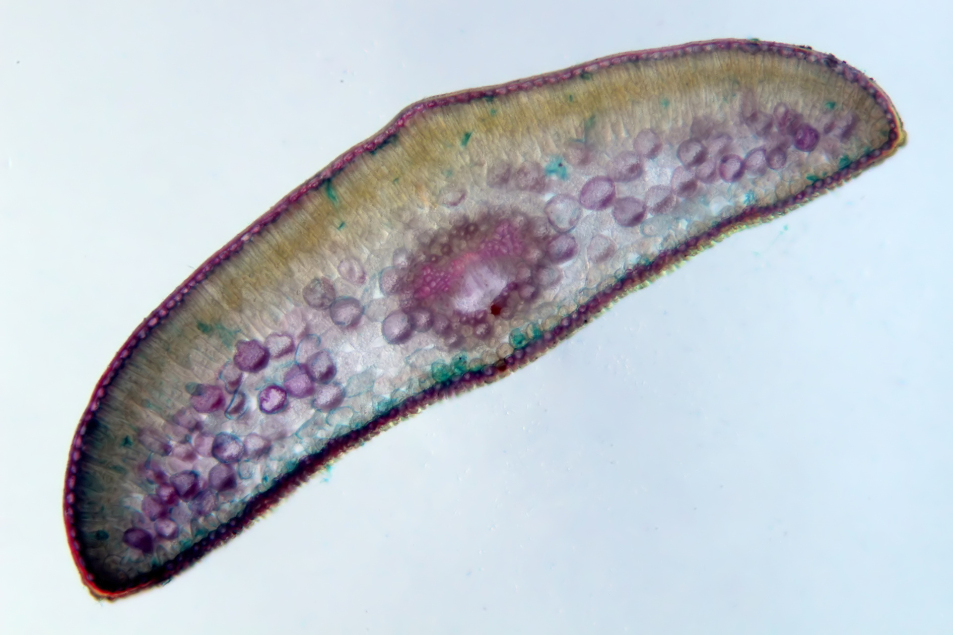 Taxus, leaf, Etzold green. Dorsiventral, no resin ducts, no sclerenchymatic hypodermis.